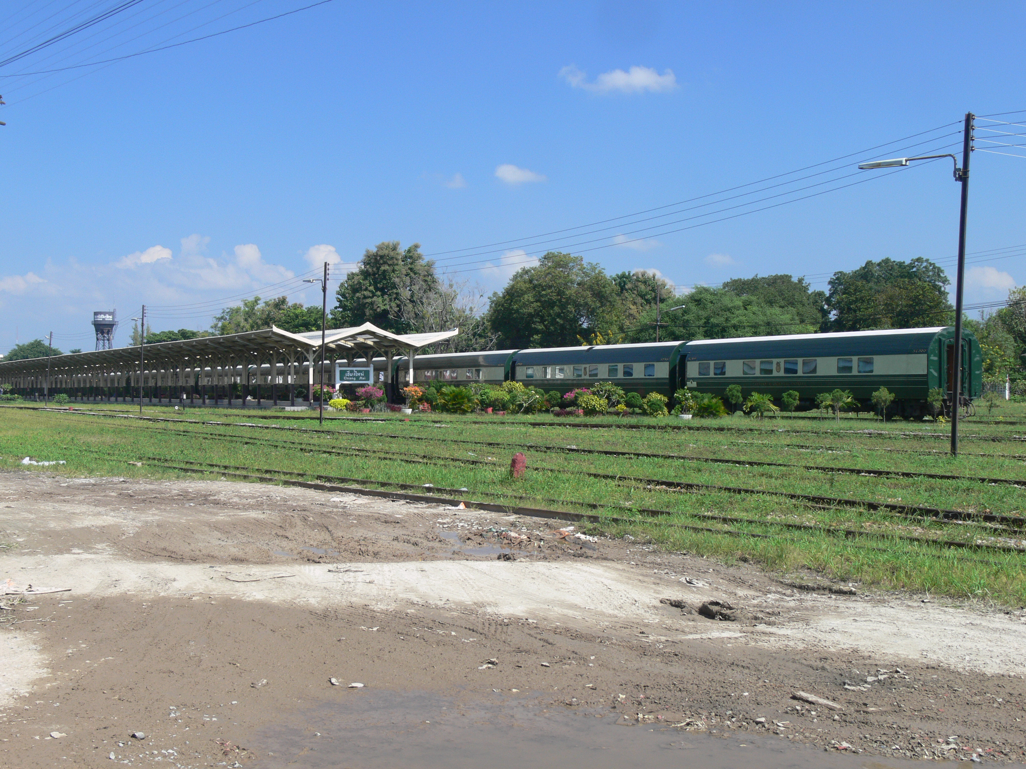 Eastern & Oriental Express in Chiang Mai